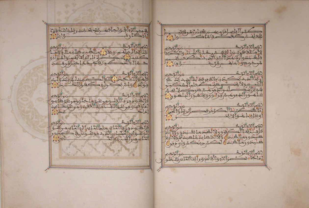 Section from a non-illustrated manuscript; Codices